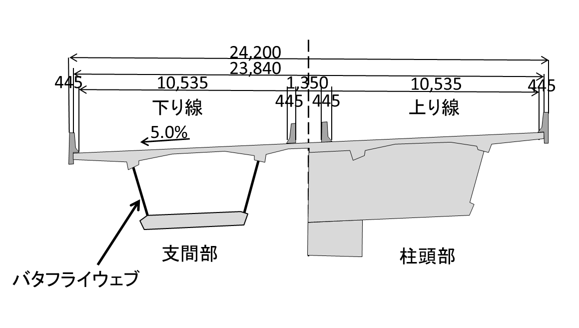 Cross sectional drawing of box girder for Shin-Meishin Mukogawa Bridge.